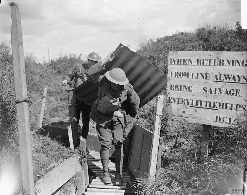 The Hundred Days Offensive, August-november 1918 Troops of the 9th Battalion, Royal Sussex Regiment, bringing in a piece of elephant back iron as salvage. Near Lens, 3 September 1918.